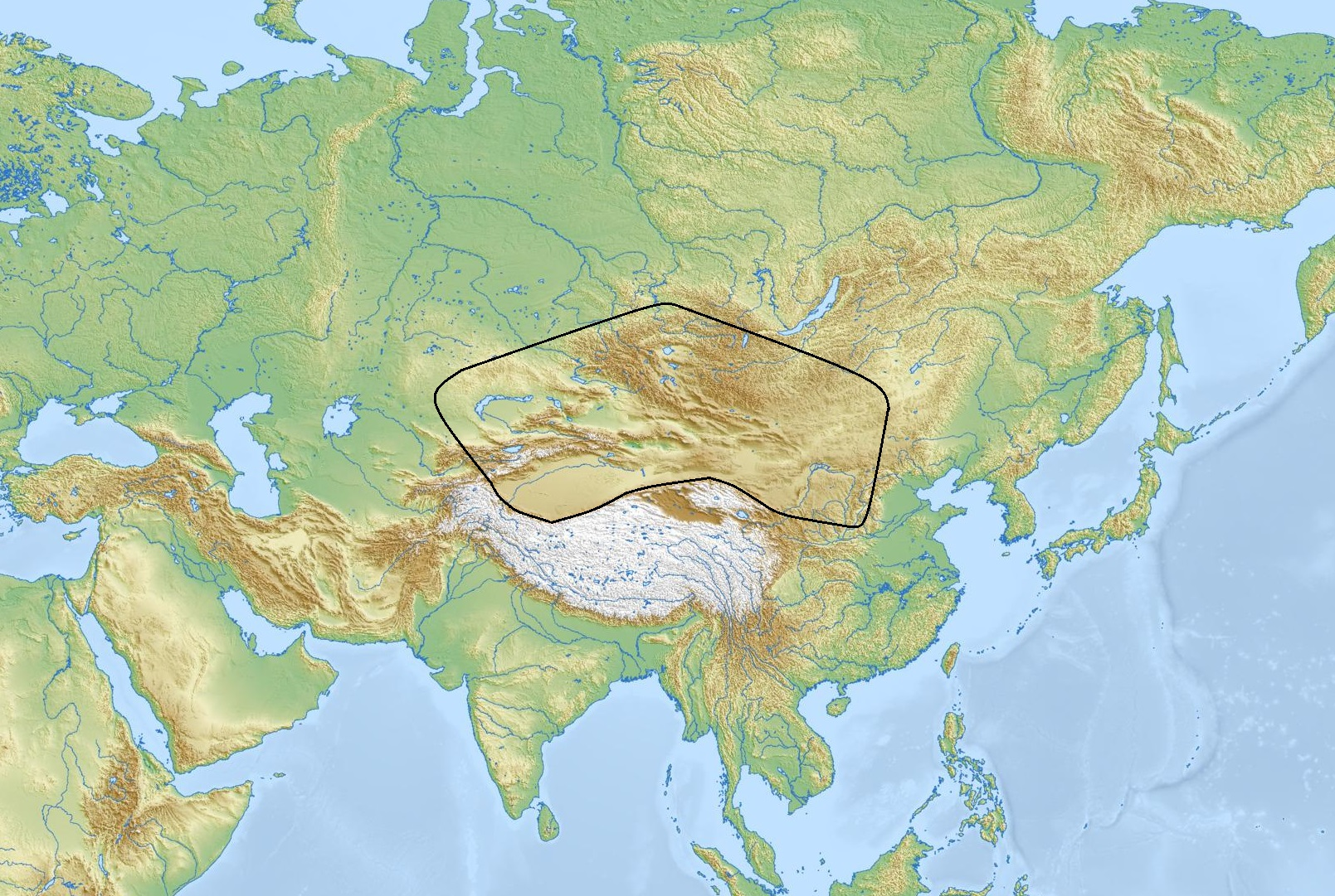 Approximate extent of the Yuezhi Empire, as described in Enoki, K.; Koshelenko, G.A.; Haidary, Z. (1 January 1994). "The Yu'eh-chih and their migrations". In Harmatta, János (ed.). History of Civilizations of Central Asia: The Development of Sedentary and Nomadic Civilizations, 700 B. C. to A. D. 250 (PDF). Paris: UNESCO. pp. 166–171. ISBN 978-92-3-102846-5.